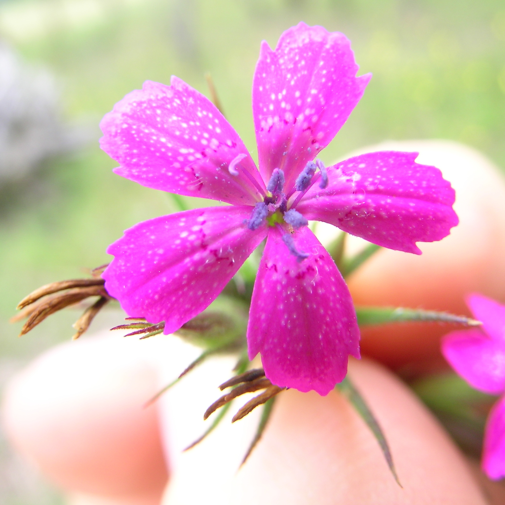 Flowers are in small terminal clusters surrounded by large bracts. Sepals 5, fused and hairy. Petals 5, fused, pink, hairy and with toothed margins. Flowering is from mid-spring to mid-summer.